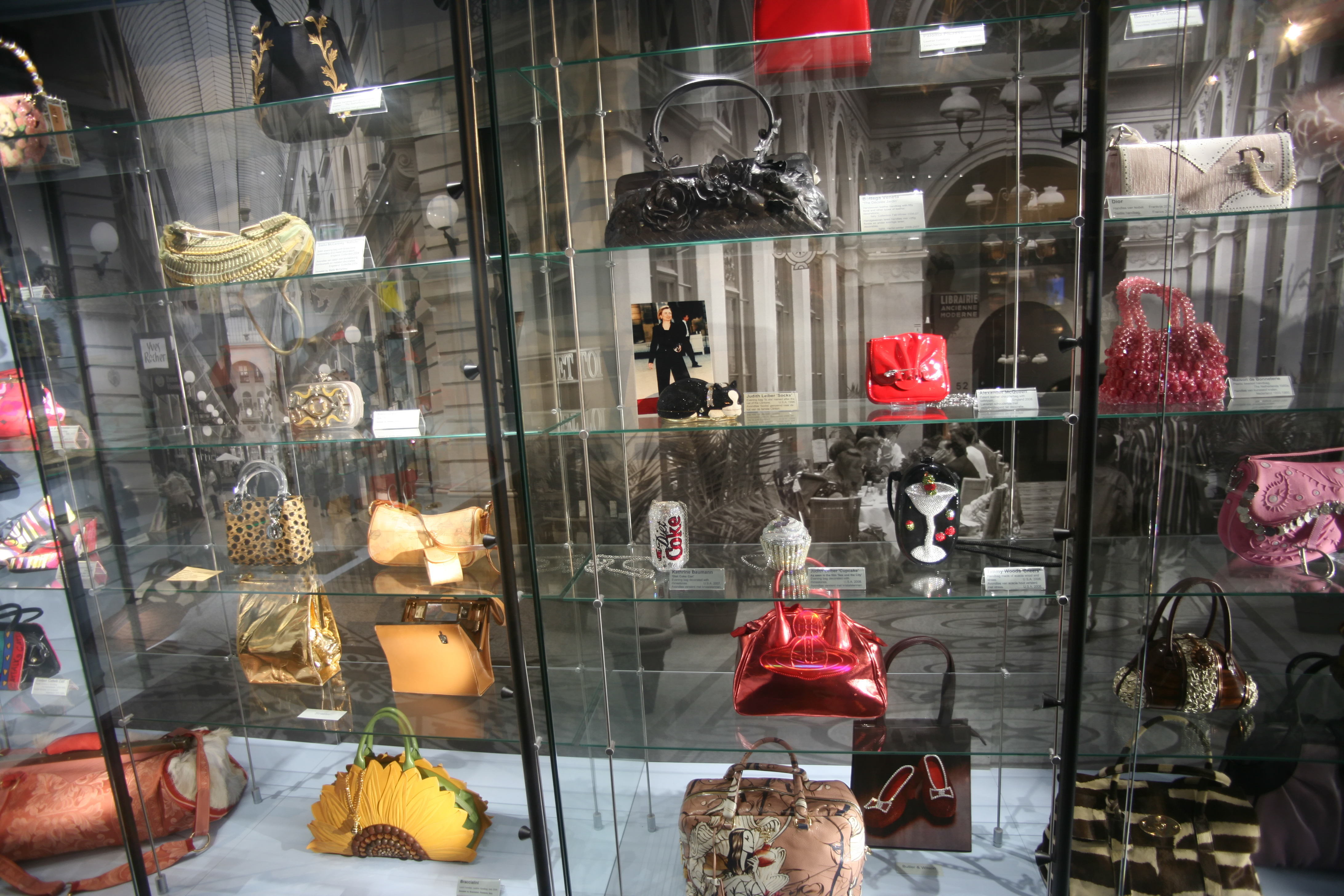 Showcase - Museum of Bags and Purses, Amsterdam